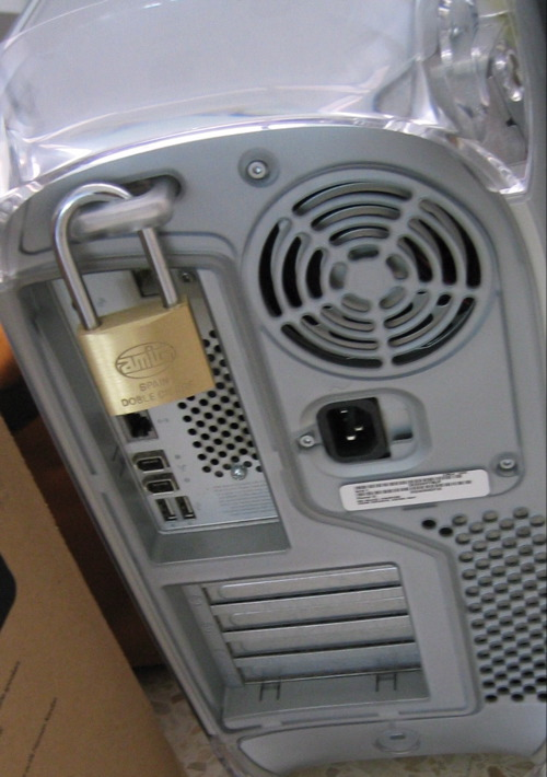 a G4 Security lock